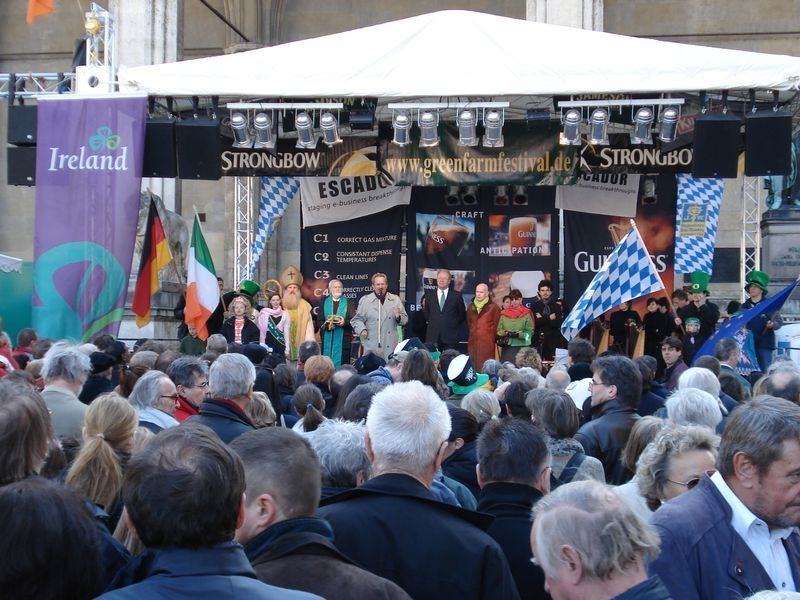 After the Saint Patrick's Day Parade in munich mayor Christian Ude is holding a speech at Odeonsplatz. Besides him the ambassador and the honorary consul of the Republic of Ireland, the organiser and others.